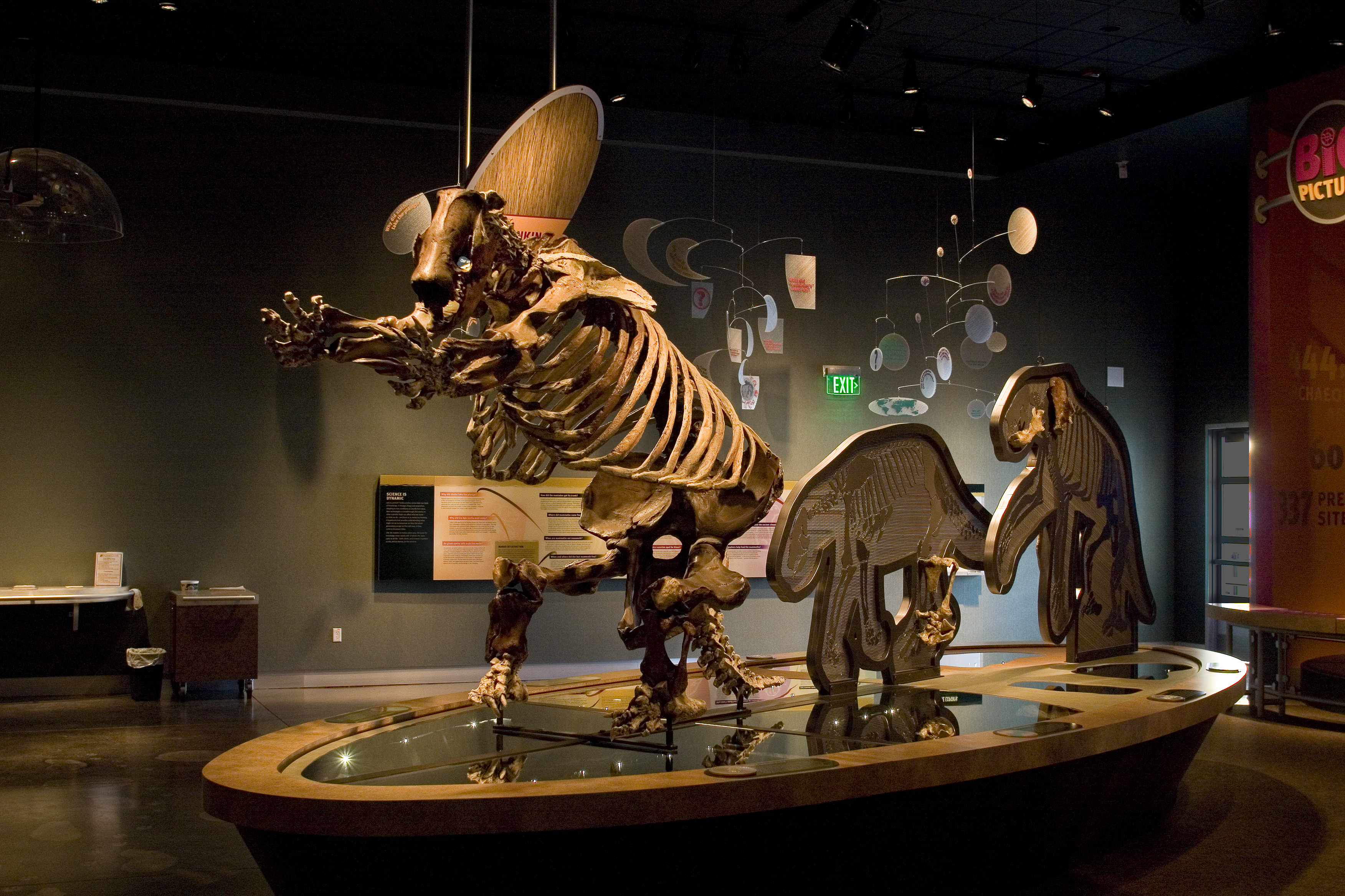 Paramylodon harlani on display at the Western Center for Archaeology & Paleontology in Hemet, California.